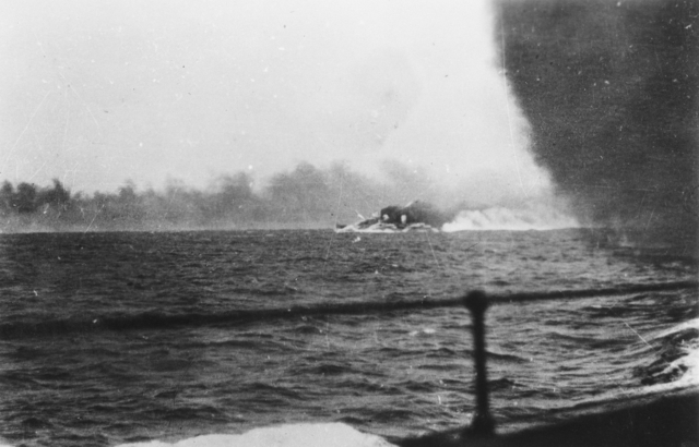 The Royal Australian Navy light cruiser HMAS Perth during the Battle of Matapan, seen from HMS Glouceter